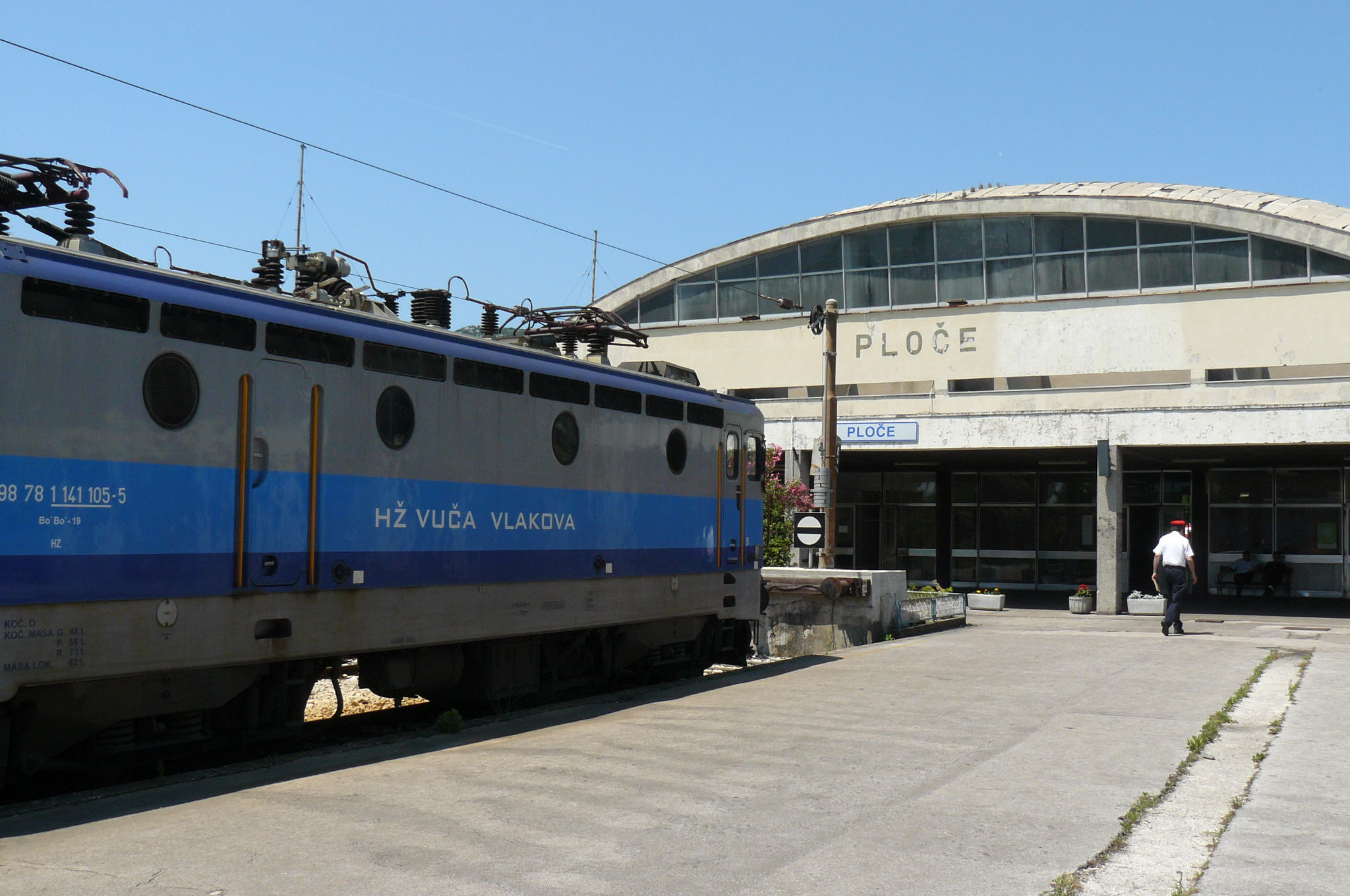 Ploce rail station.